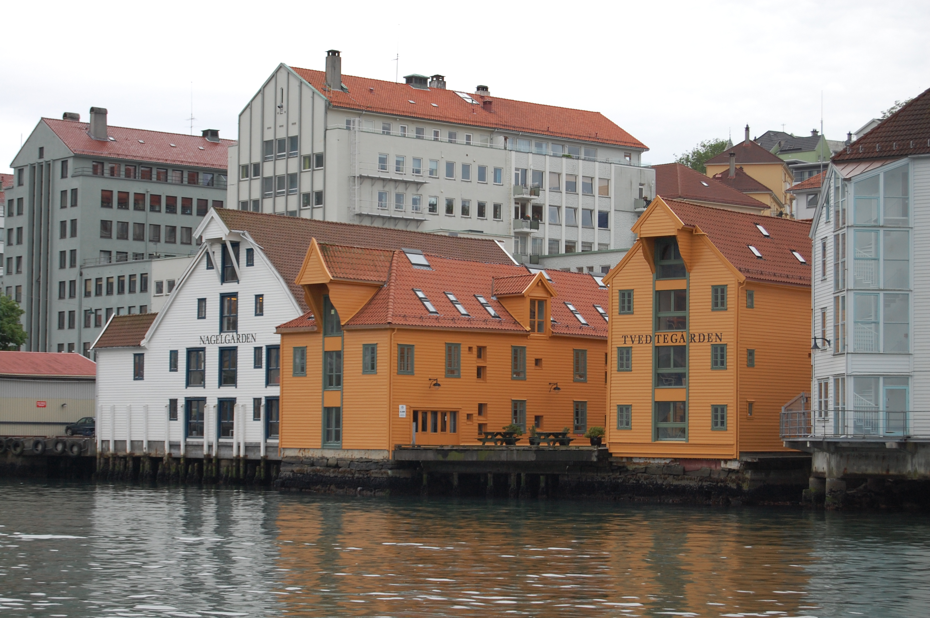 Tvedtegården, Hellandsgården, Nagelgården, Bergen, Norway